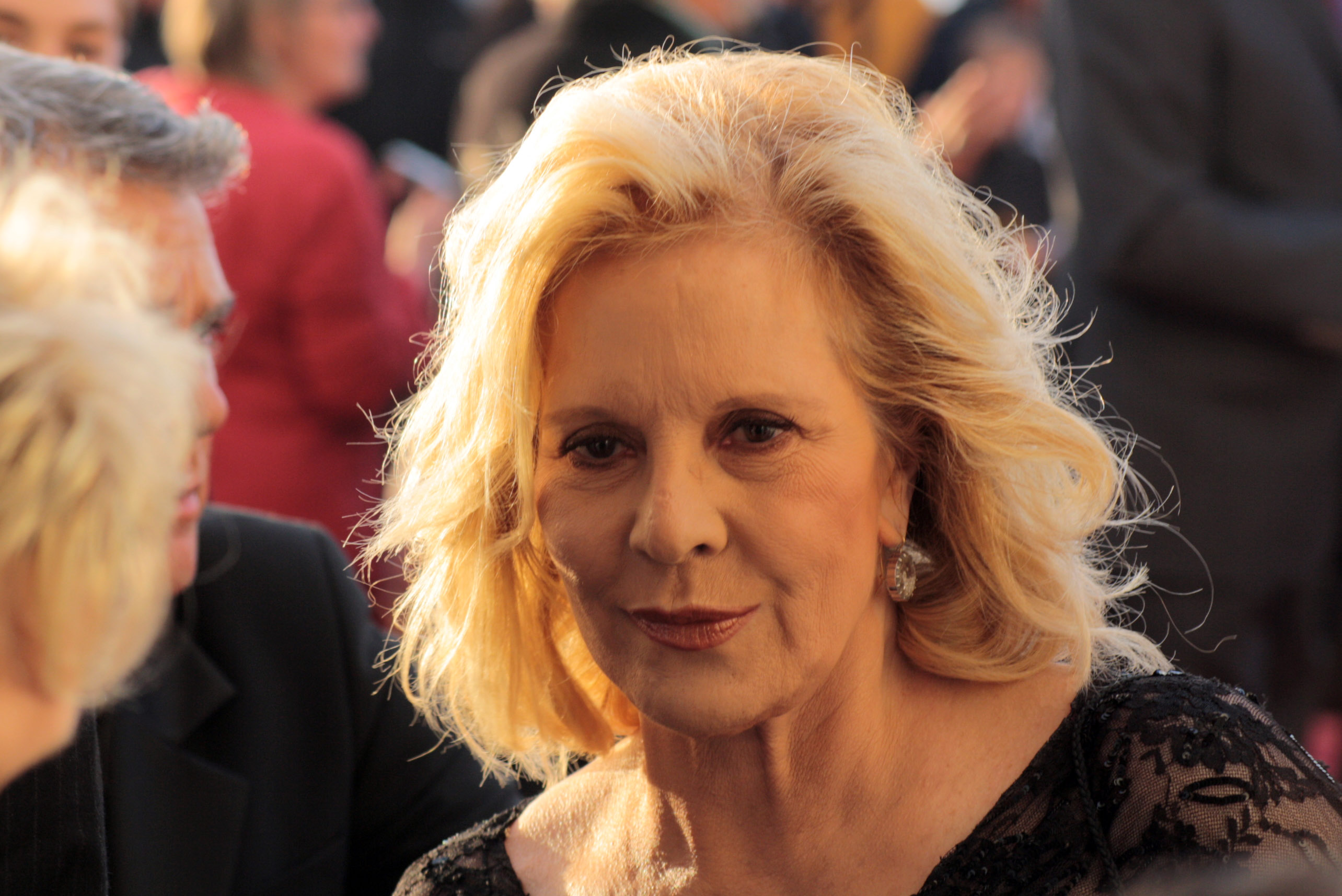 Sylvie Vartan at the 2011 Cabourg Film Festival.